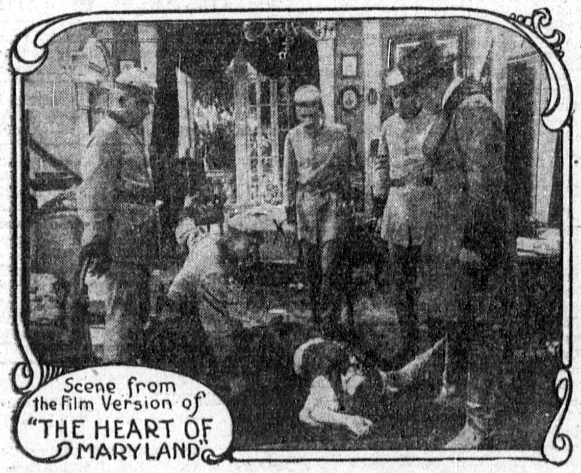 The Heart of Maryland is a lost 1915 silent film drama directed by Herbert Brenon based on David Belasco's play The Heart of Maryland. This is a scene from the film as printed in a newspaper.